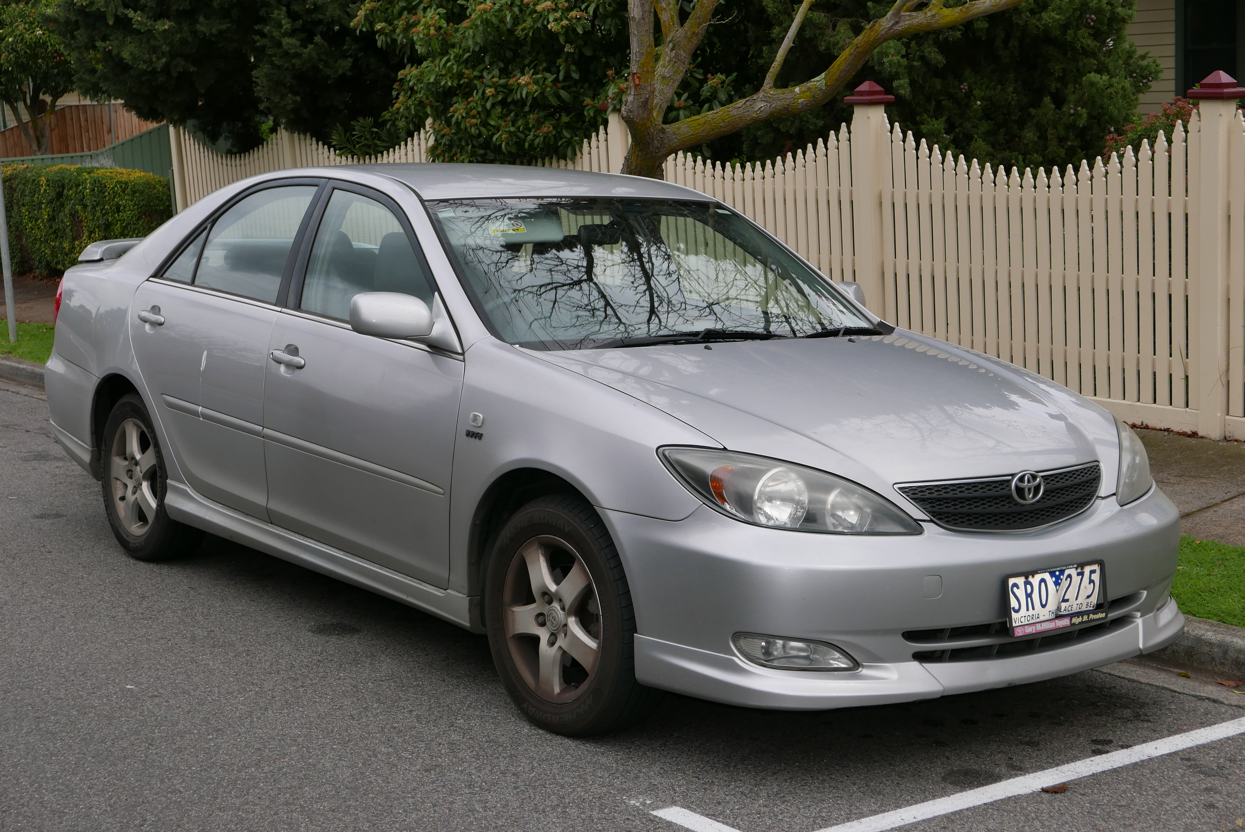 2003 Toyota Camry (ACV36R) Sportivo sedan. Photographed in Ivanhoe, Victoria, Australia. Vehicle registration enquiry resultsJurisdictionVictoriaRegistrationSRO275Chassis code6T153BK360X038223Engine code2AZA114912Compliance date2003-11Year of manufacture2003